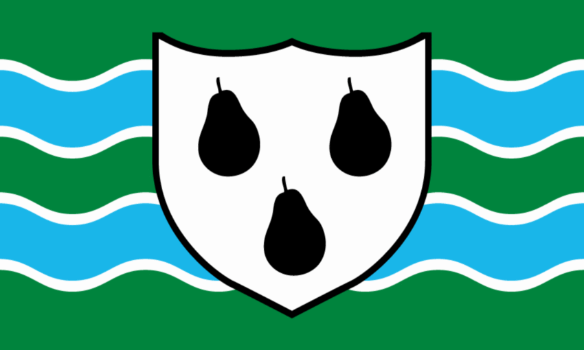 Newly registered flag of Worcestershire.